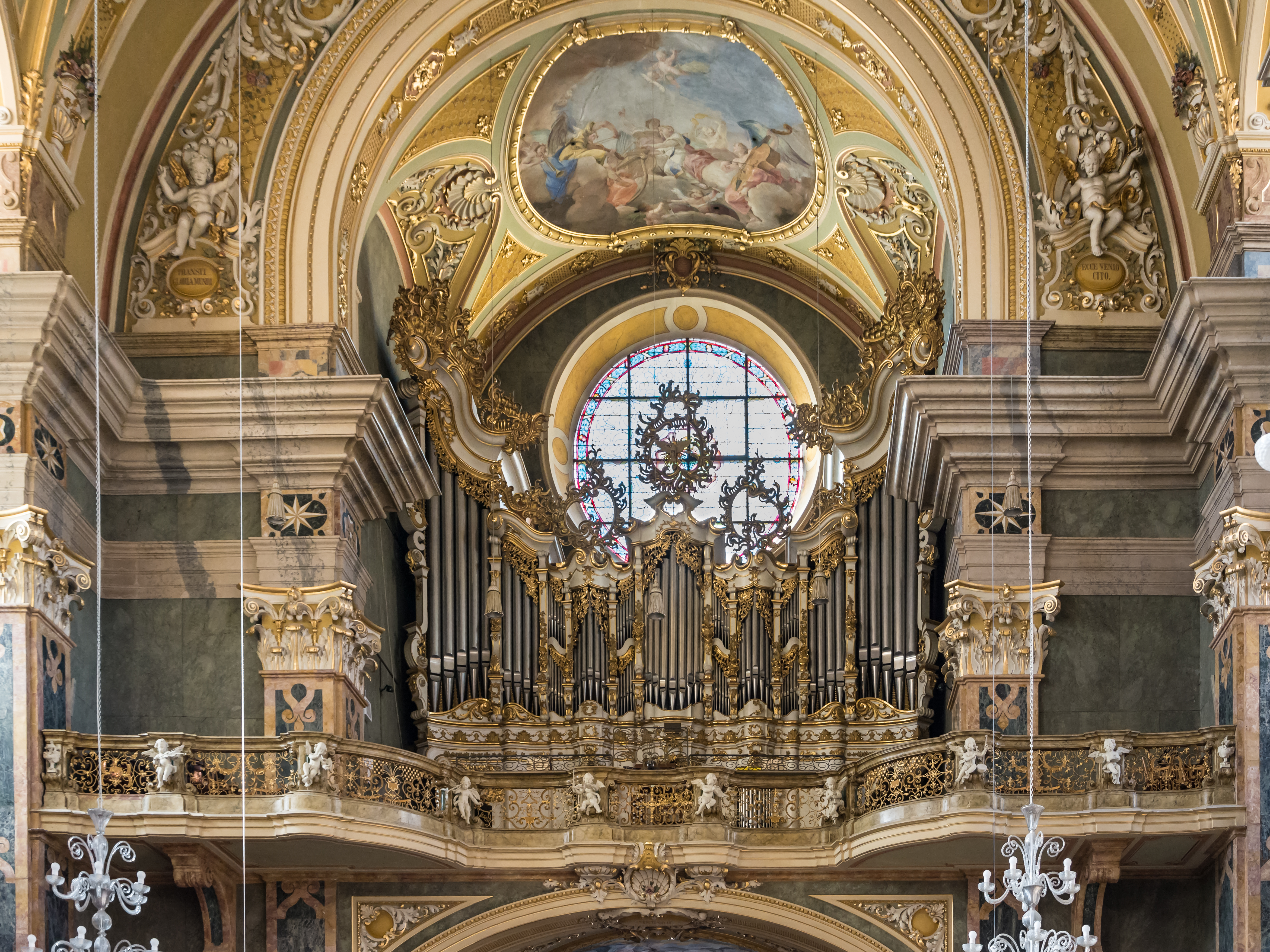 Main organ of Brixen Cathedral by Johann Pirchner (1980) in the original case of the historic organ (1756-58) by Augustin Simnacher